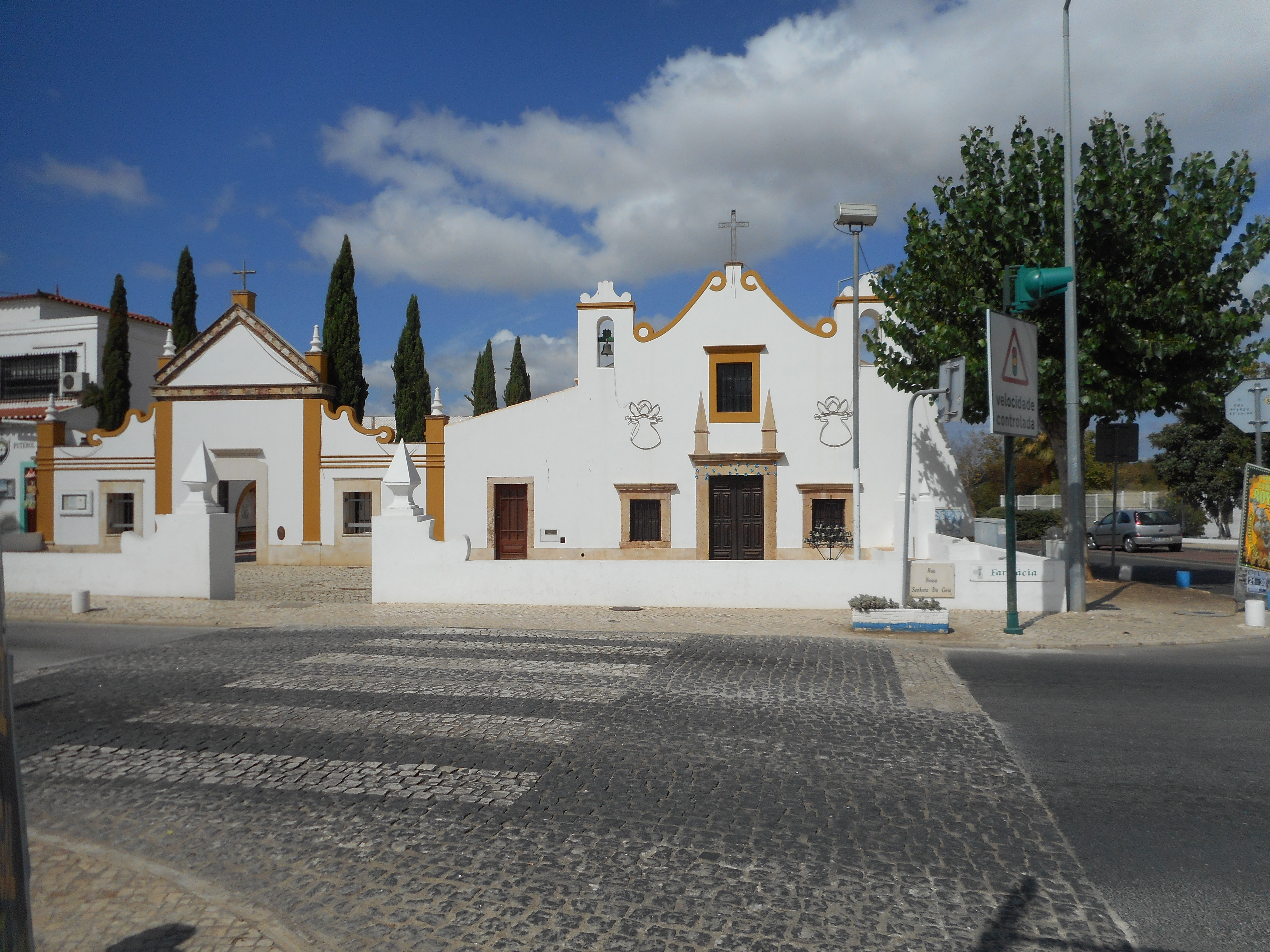 Capela de Nossa Senhora da Guia is located on the Rua da Liberdade within the town of Guia, Algarve, Portugal. There is evidence to show that there has been a place of worship located here before the 16 century. The church that stood here before 1755 was badly damaged and much of it collapsed during the 1755 earthquake. Since then the building has been rebuilt and altered to the building seen today. It is considered to be a good example of ecclesiastical architecture of the Baroque Period in the Algarve.